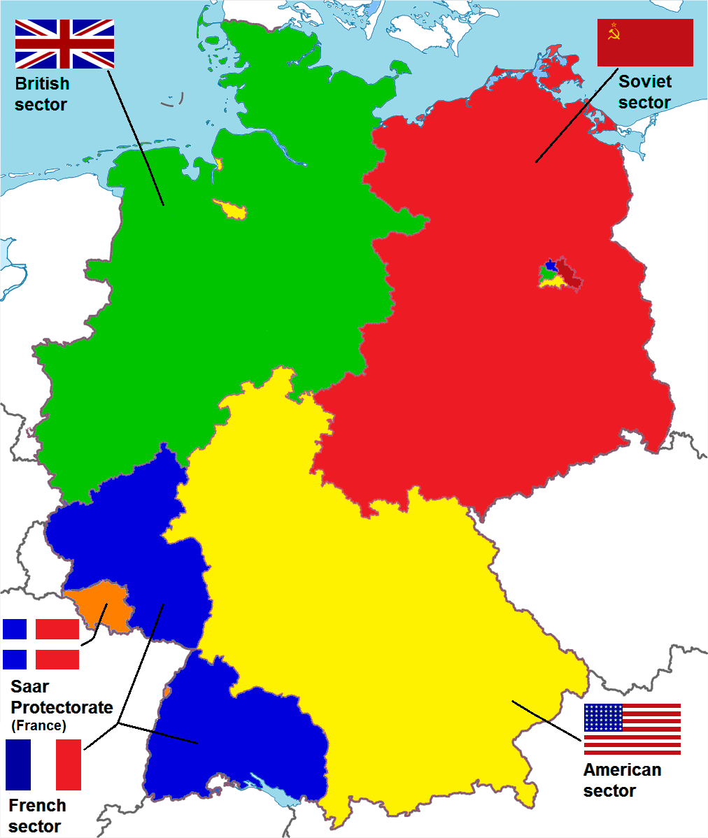 Allied Occupation zone borders in Germany, 1945-1949.Saar protectorate is separated as French territory. Berlin is the multinational area within the Soviet zone.